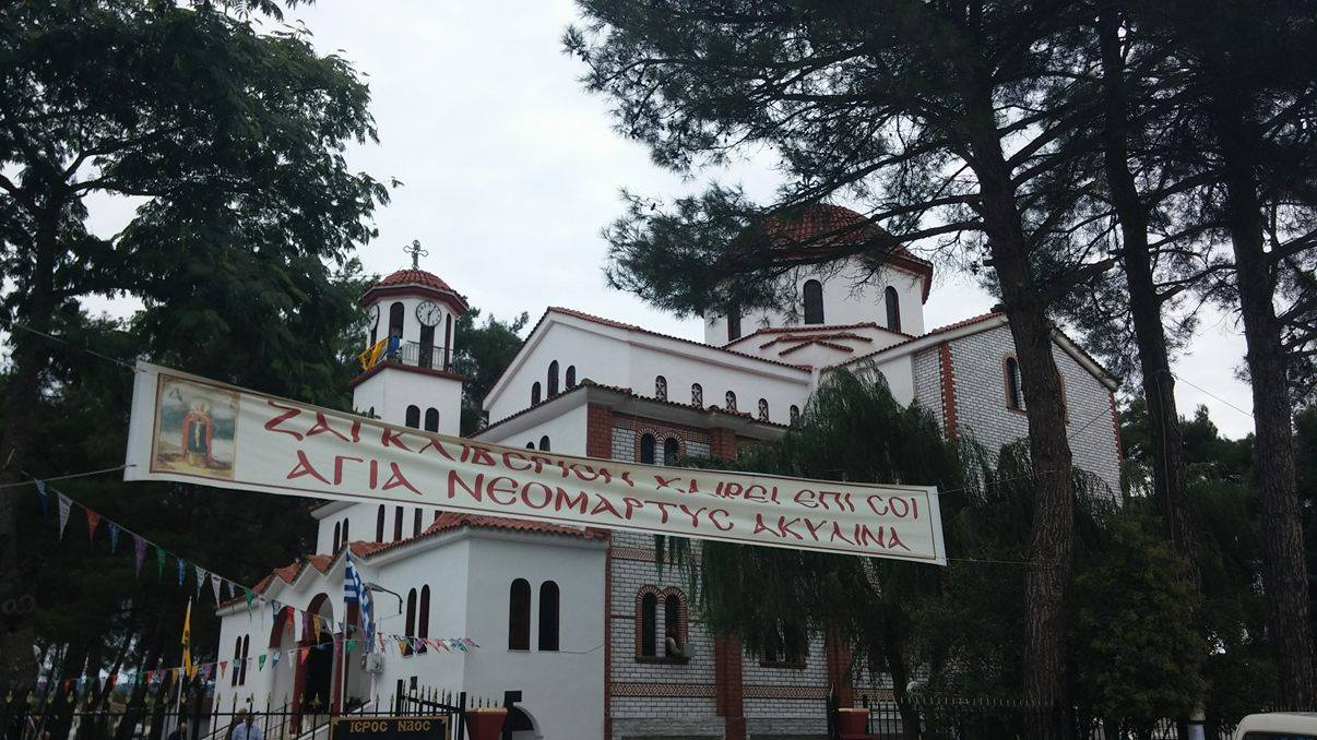 Zagiveri Saint Akylina Church